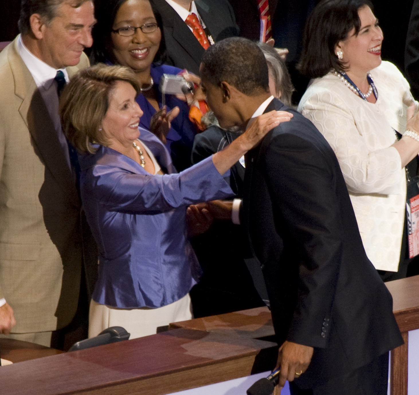 Vice-Presidential Candidate Joe Biden and Presidential candidate Barack Obama greet congressional leaders Nancy Pelosi and John Kerry at the Democratic National Convention, Denver, Colorado, August 25-28, 2008